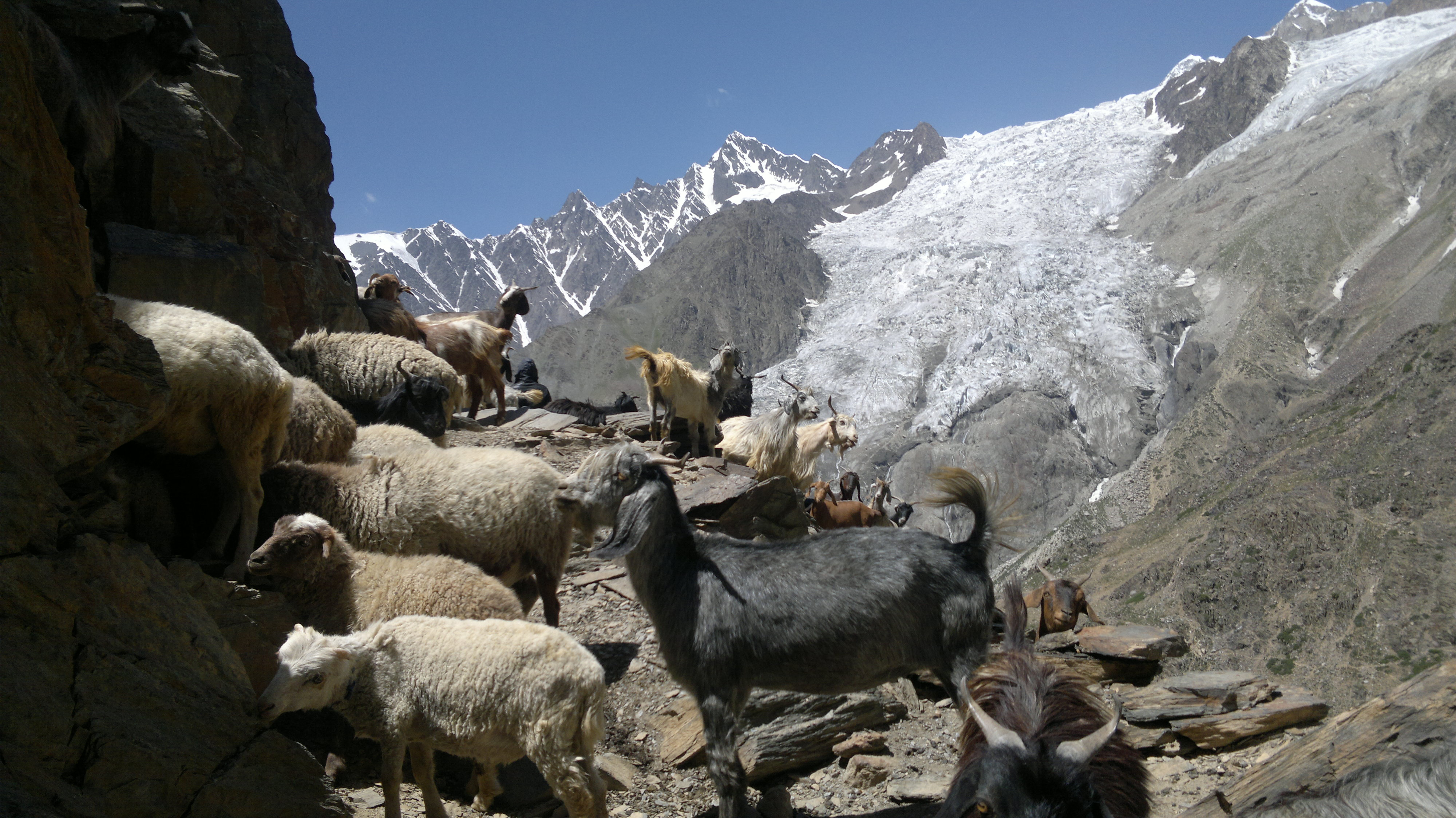 Darkut Yasin